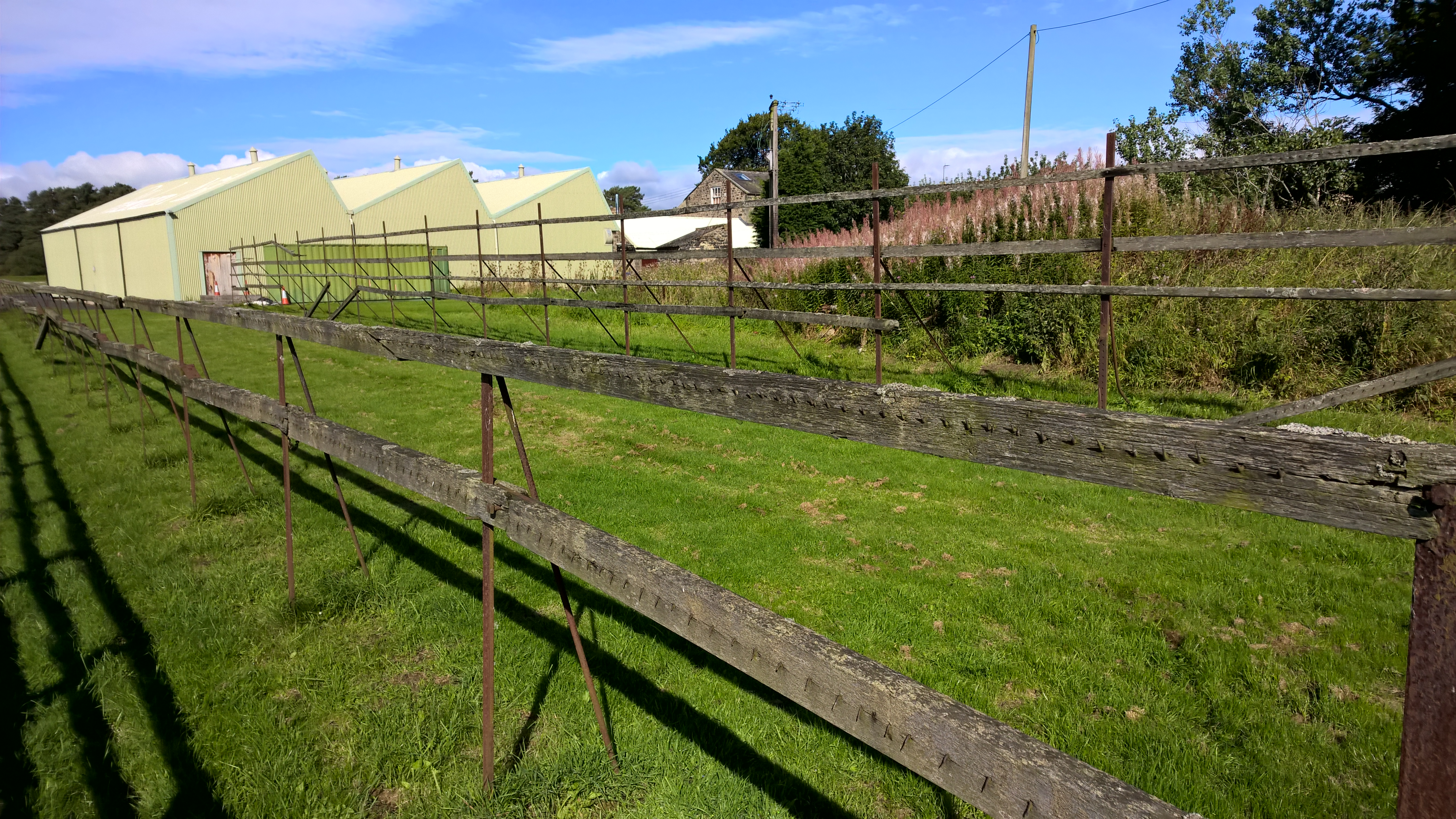 Washed cloth was hooked on to the Tenter Hooks, and the bottom row of hooks released to stretch the cloth as it dried in he sun and wind before further processing. These are believed to be the last remaining Tenter Frames in the world and these frames date back to the early eighteenth century. From this method of stretching the cloth the expression was created: 'To be on tenter hooks'. (Description copied from adjacent signage.)